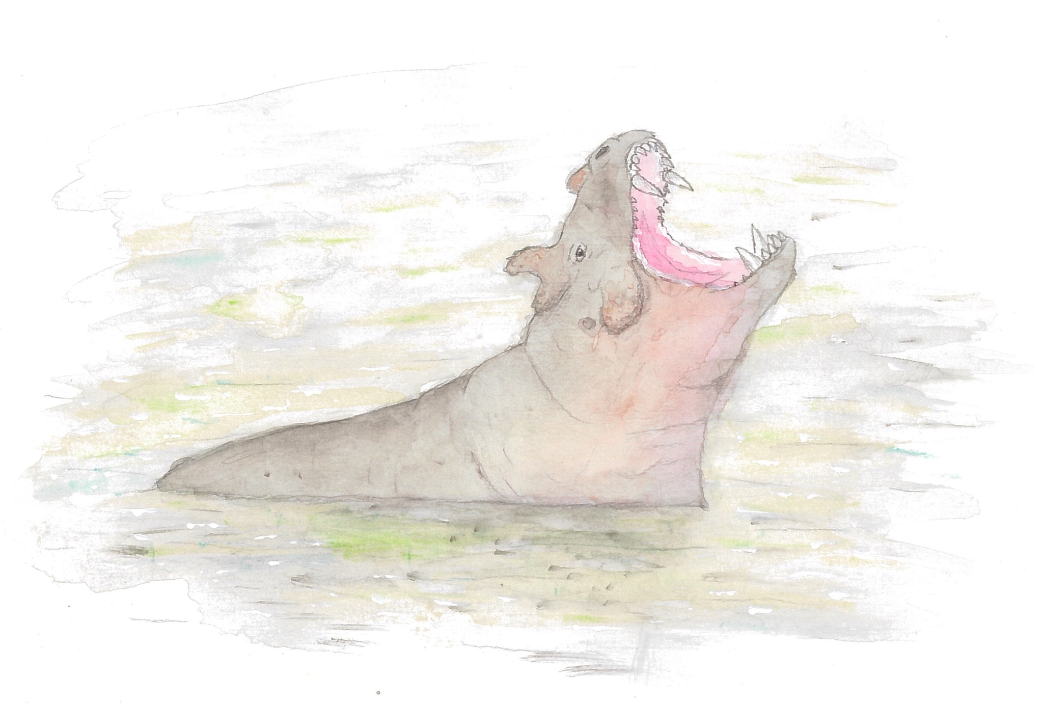 A watercolour painting of an Estemmenosuchus wallowing in a lake, on an overcast permian day.